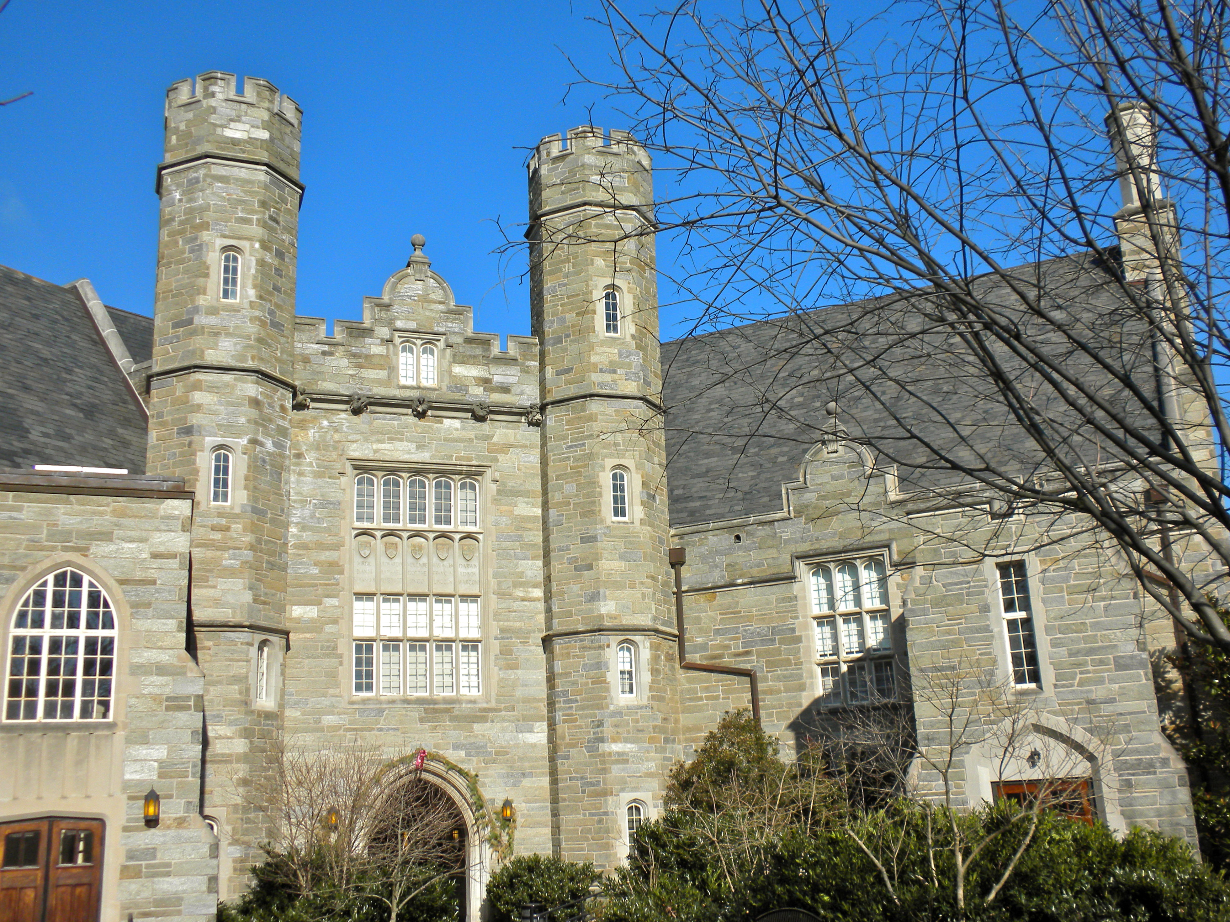 Philips Hall at West Chester University, a contributing building in the West Chester State College Quadrangle Historic District on the NRHP since October 8, 1981. The district is bounded by South High and South Church Streets, University and Rosedale Avenues, in West Chester, Chester County, Pennsylvania. This building is at the corner of University and High Streets. Architect Walter Price, brother of Will Price. Built 1927.